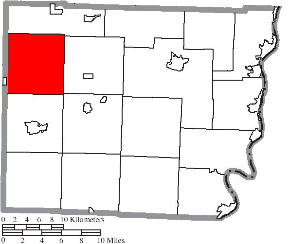 Map of the municipal and township boundaries of Belmont County, Ohio, United States, as of the 2000 census, with the location of Kirkwood Township highlighted. Township borders are shown only in unincorporated areas in order to differentiate incorporated and unincorporated areas more clearly.